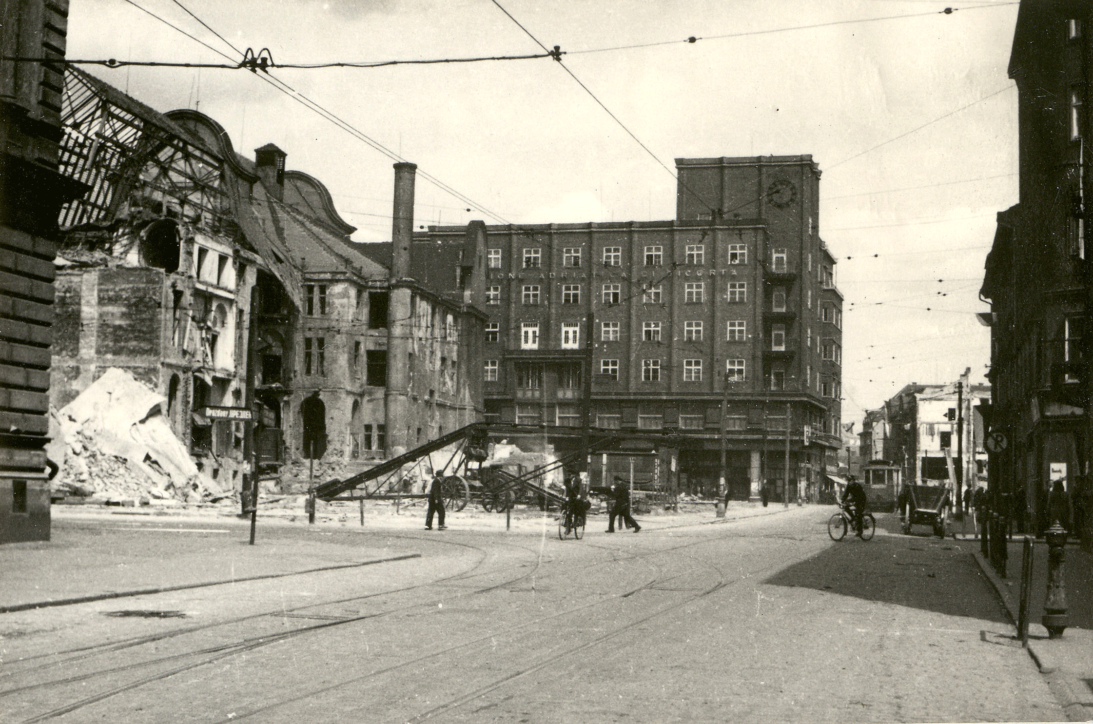 Results of an air raid on Ústí nad Labem (Aussig an der Elbe in the Greater German Reich at that time) in 1945.